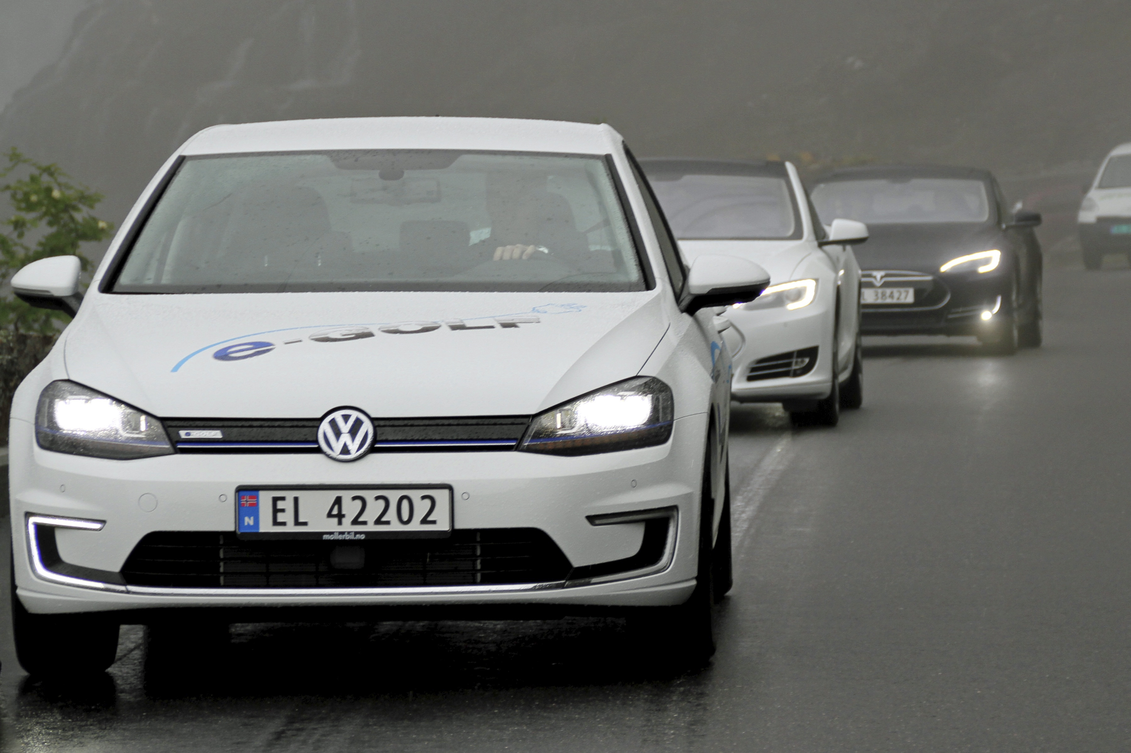 VW e-Golf participating in the 2014 EV Rally in Trollstigen, Norway